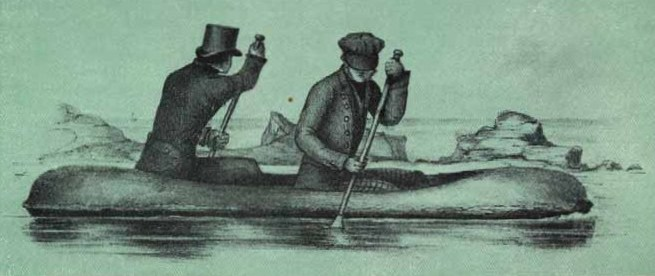 Two-man Halkett boat in use. Source: "Footnotes to the Franklin Search". The Beaver 34 (4): 48. Hudson's Bay Company.